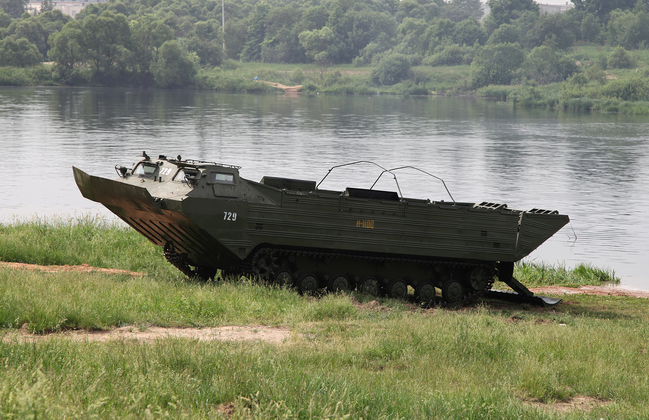 PTS tracked amphibious transport